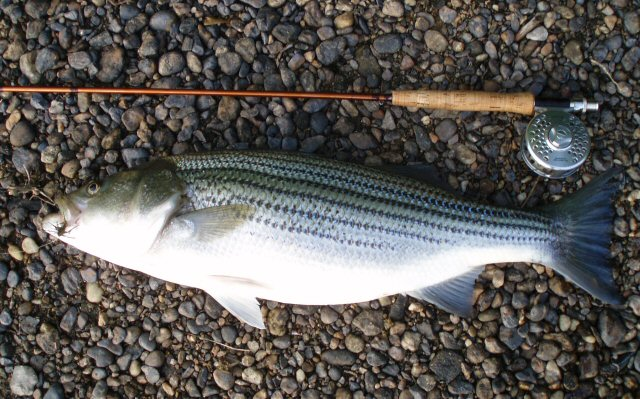 Striped Bass From Pipeline Falls, Coosa River, Wetumpka, Alabama (Released)